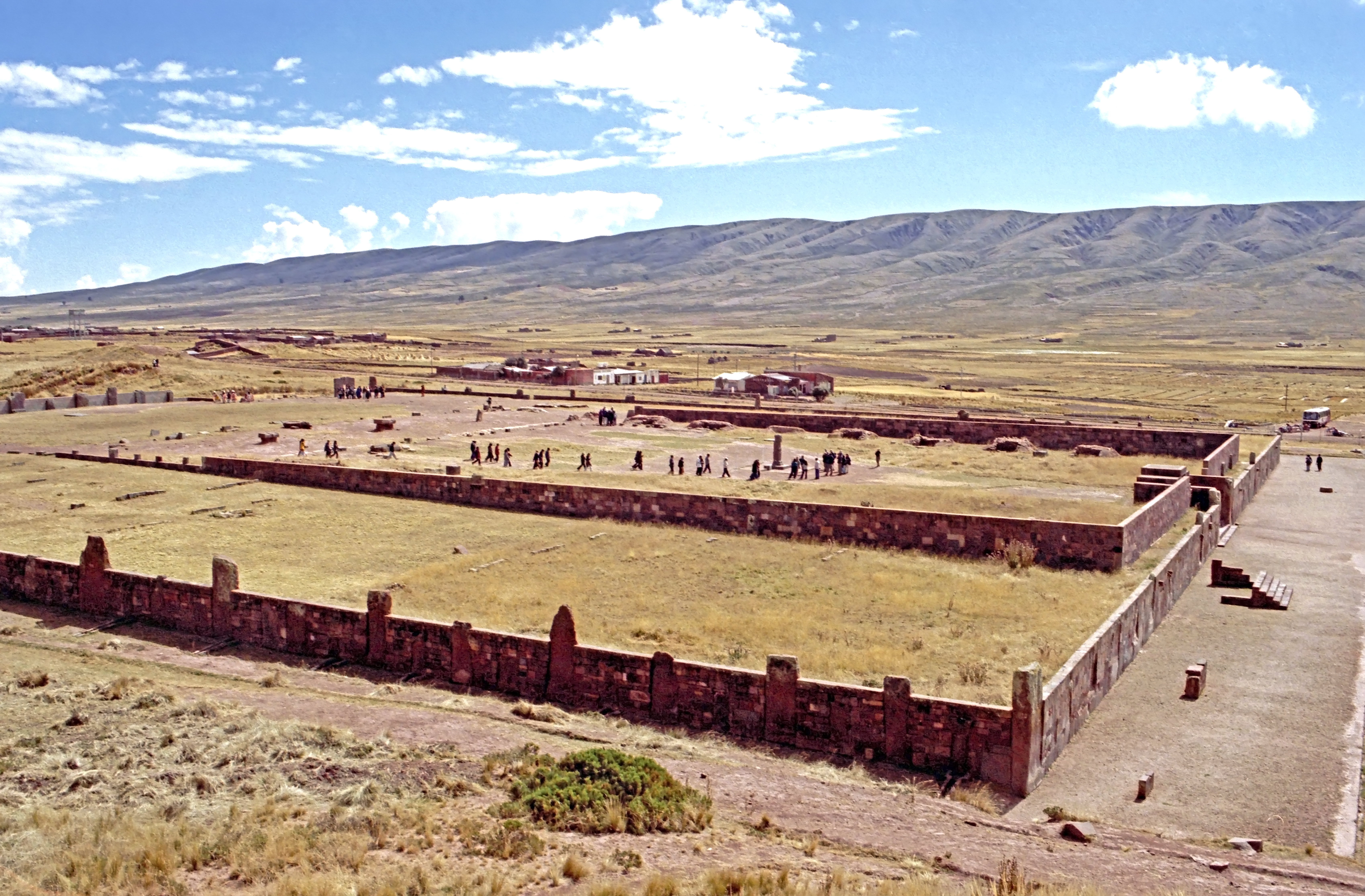 Kalasasaya (Kala = stone and sasaya = standing) the standing stones is the main feature of the Main Temple of Tiwanaku. It is made of impressive walls with huge monolithic columns of andesite or sandstone (many over 150 tons), and different sized stones between them. It is considered to be a huge calendar or astronomic observatory to determine season changes (solstices and equinoxes). Tiwanaku, Bolivia